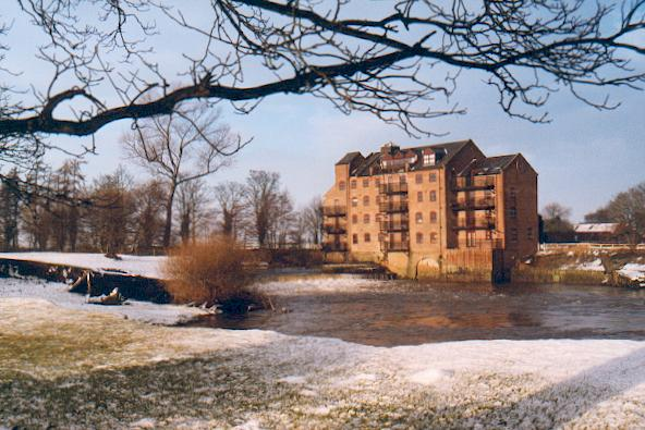 Topcliffe Mill. The much restored buildings of Topcliffe's old corn mill are now apartments. The mill stands by the River Swale. On the near bank the remains of one of the locks of the failed scheme to canalise the river to Bedale can be seen.